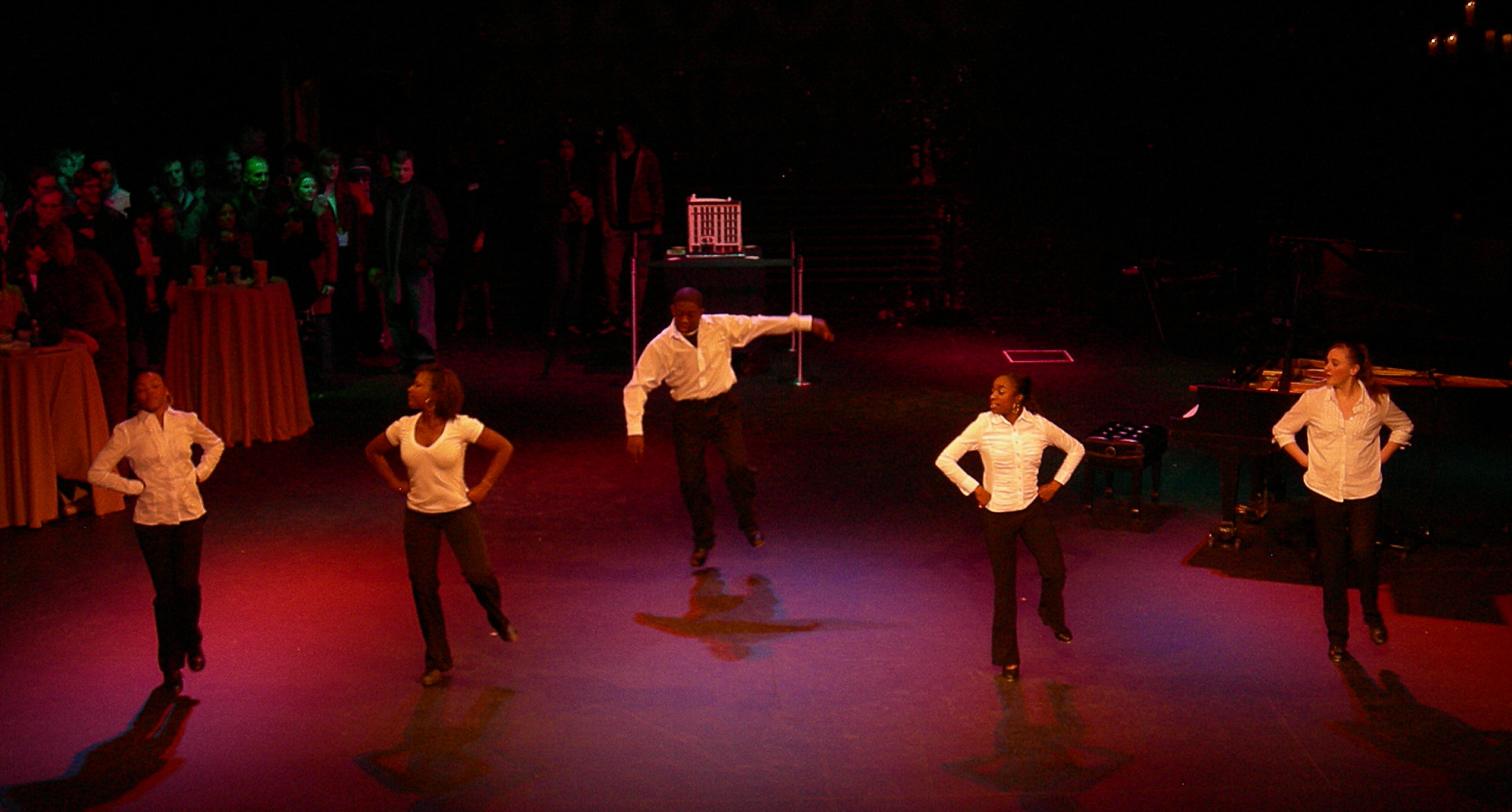 Northwest Tap Connection perform at the Moore 100 Open House Celebration, celebration of the 100th anniversary of the Moore Theatre, Seattle, Washington.